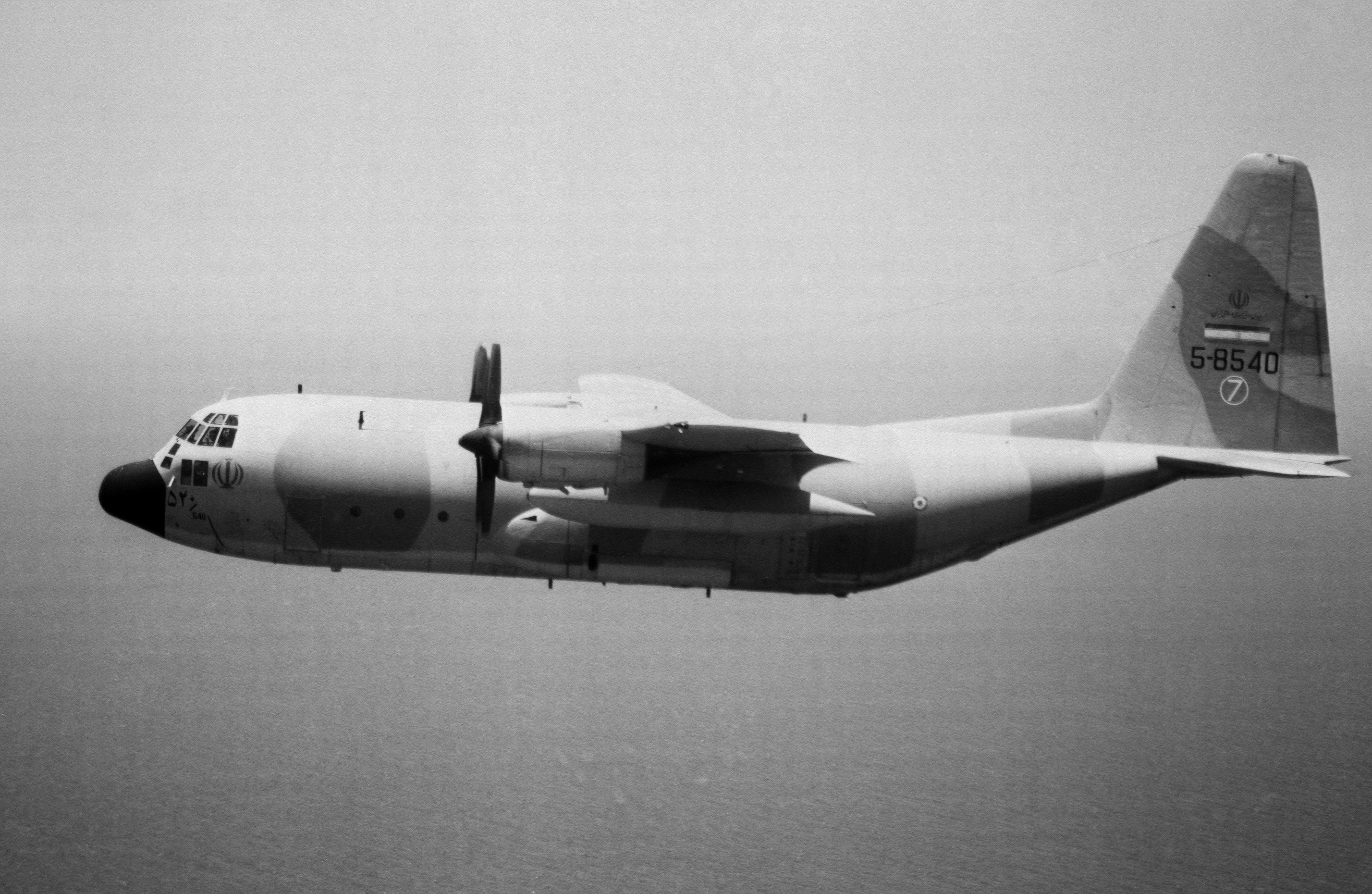 An air-to-air left side view of an Islamic Republic of Iran Air Force Lockheed C-130 Hercules aircraft.